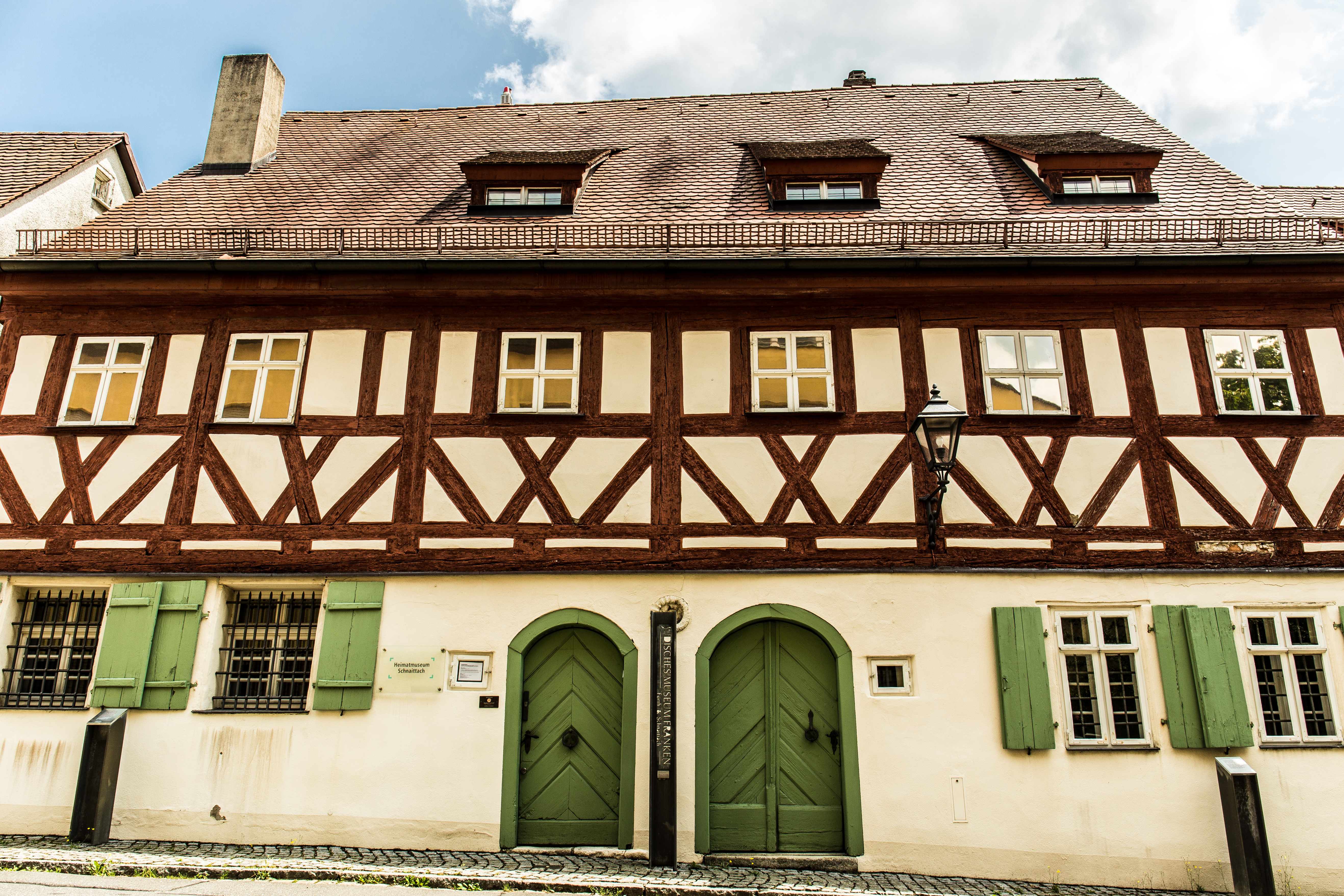 This is a photograph of an architectural monument.